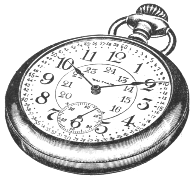 A Waltham railroad watch from a 1917 catalogue